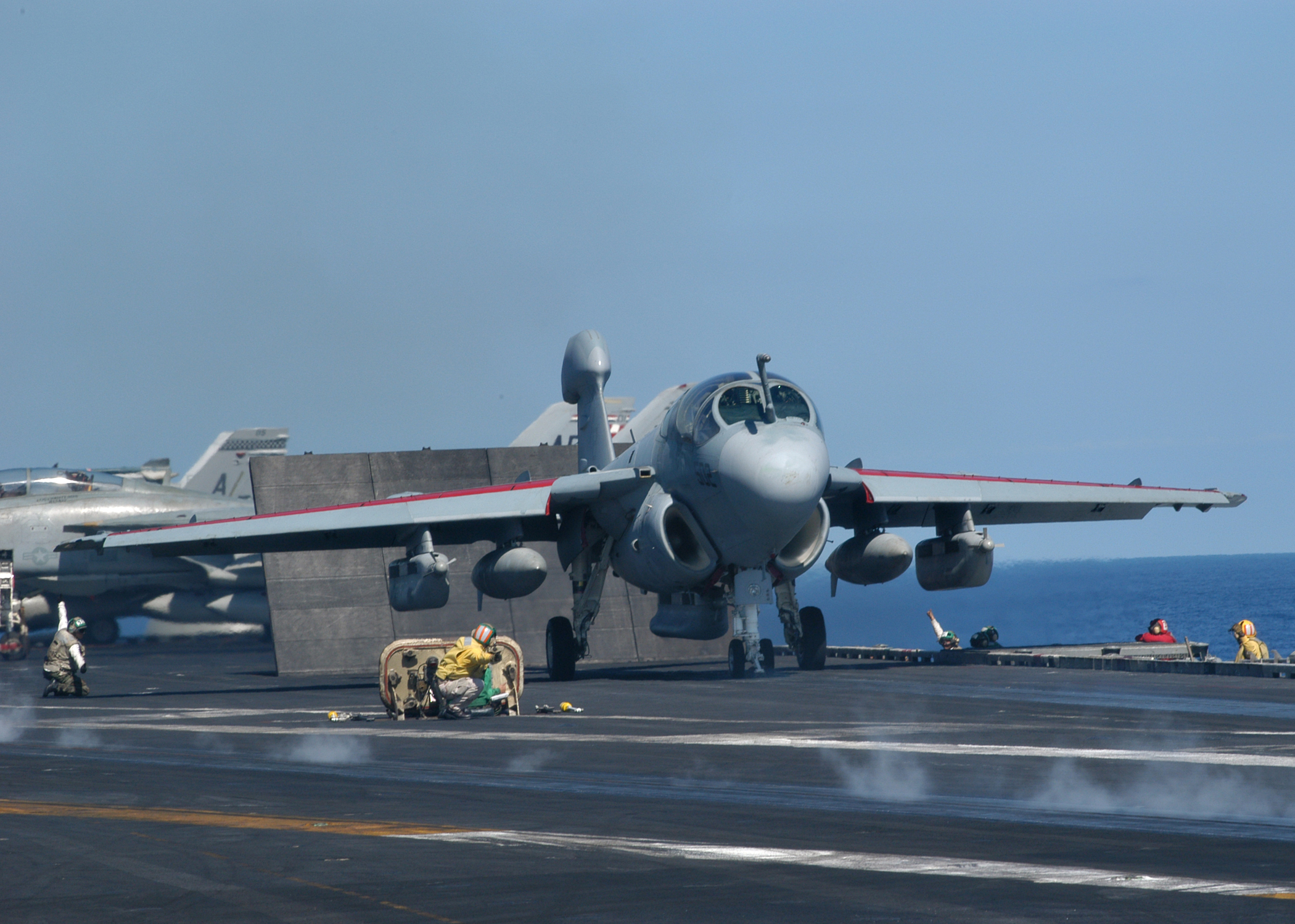 Mediterranean Sea (Oct. 10, 2003) -- A EA-6B Prowler attached to the “Rooks” of Electronic Attack Squadron One Three Seven (VAQ-137) prepares to launch from one of four steam powered catapults on the flight deck of USS Enterprise (CVN 65). U.S. Navy photo by Photographer's Mate 3rd Class Lance H. Mayhew Jr. (RELEASED)